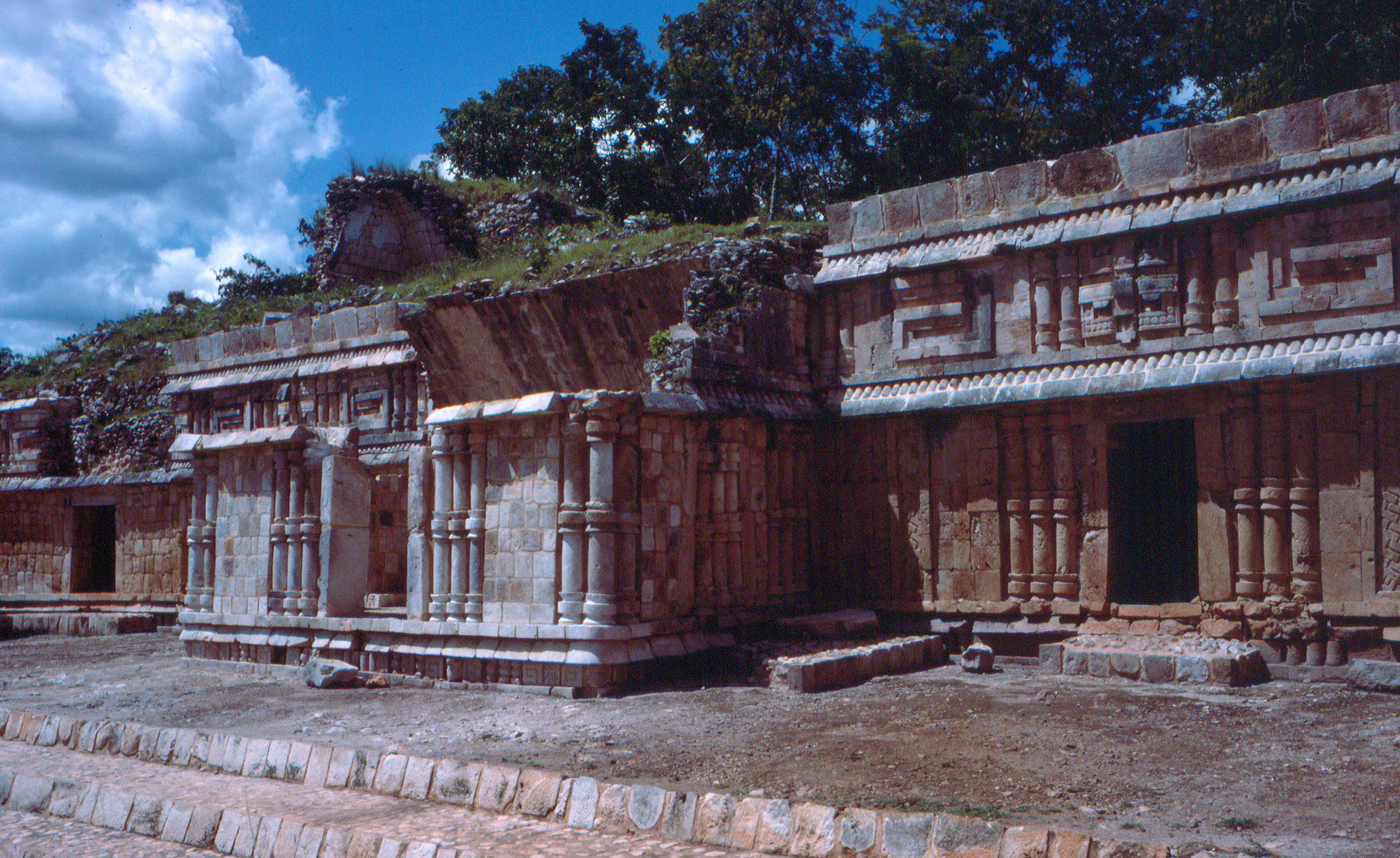 Labná, Yucatan, Mexico: Detail of center portion of palace..